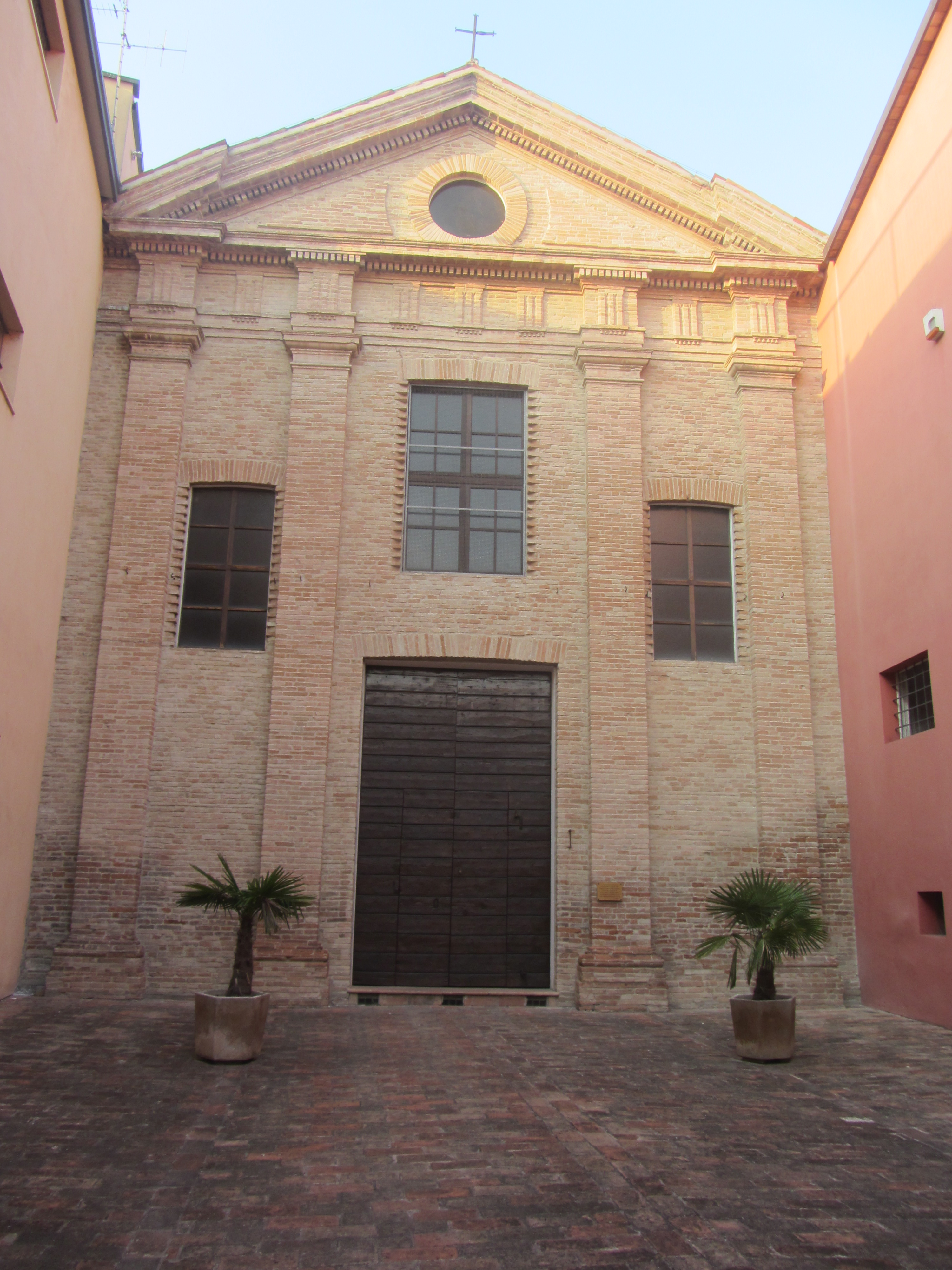 Savignano sul Rubicone, Chiesa di San Salvatore (detta del Suffragio)